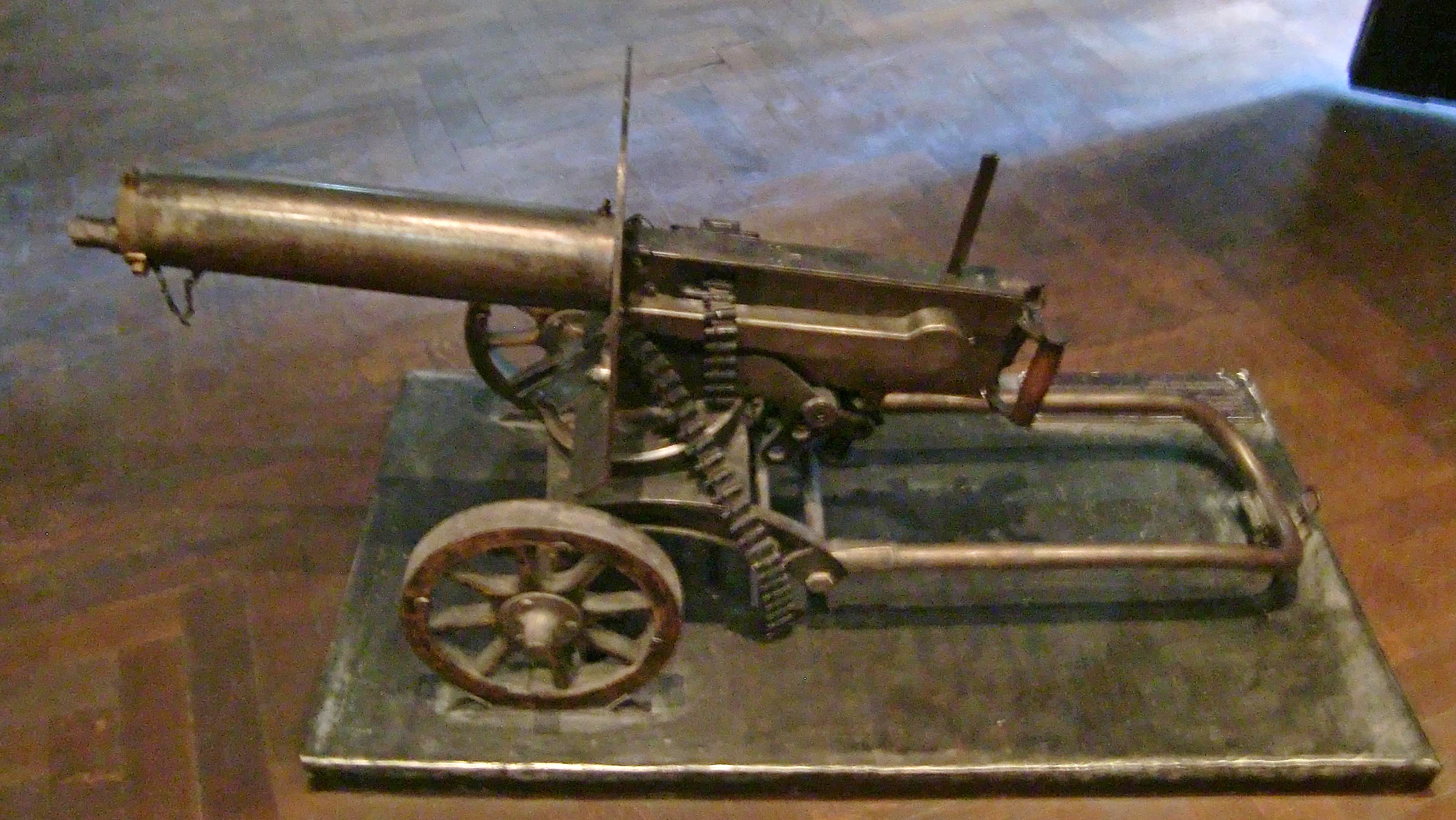 Maxim machine gun, with thanks to the Georgian National Museum for allowing photography